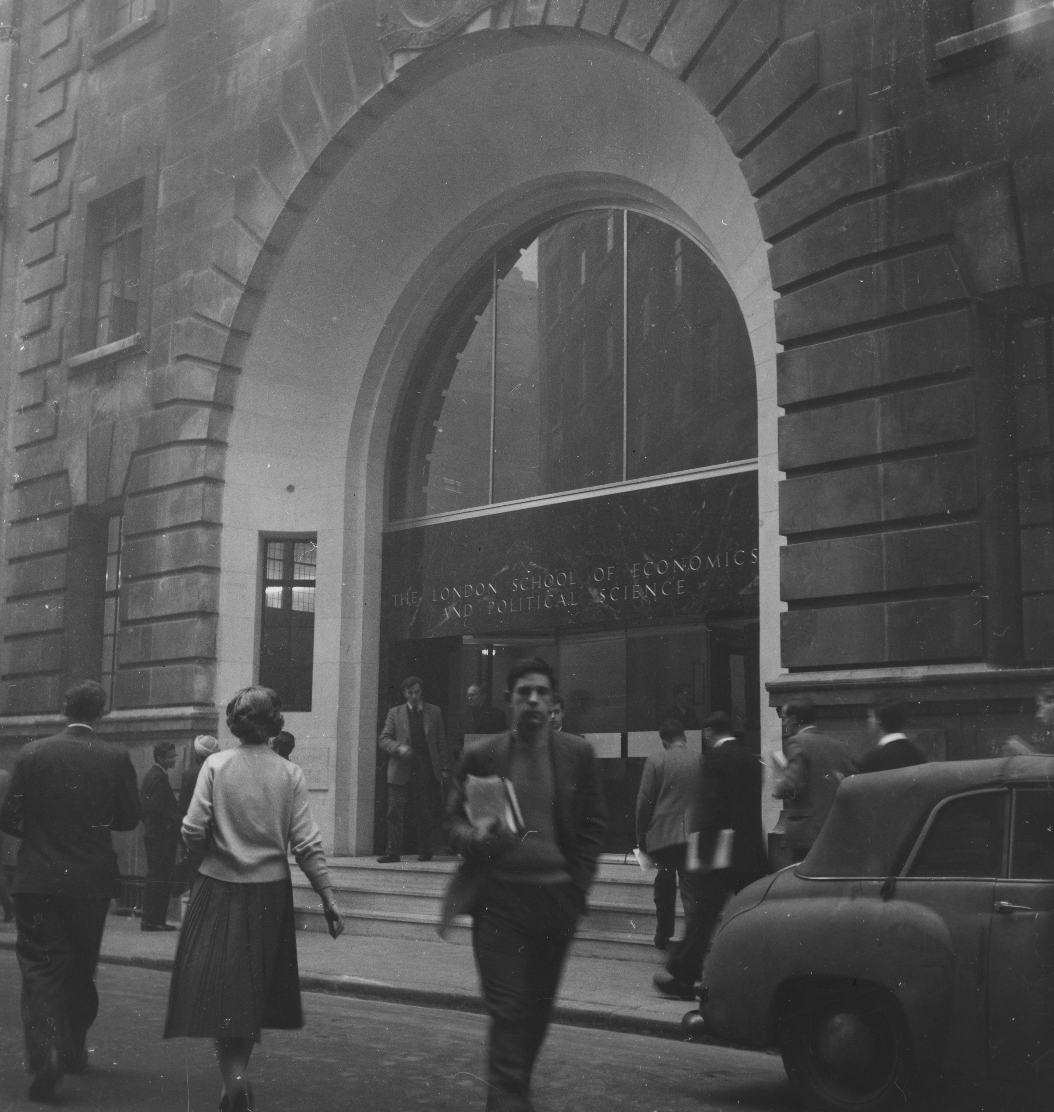 IMAGELIBRARY/789 Persistent URL